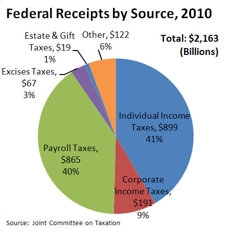 Federal Receipts by Source, 2010. Federal revenue pie chart for different sources tax revenue. Notes: 1. Payroll taxes comprise old-age and survivors insurance, disability insurance, hospital insurance, railroad retirement, railroad Social Security equivalent account, employment insurance, employee share of Federal employees retirement, and certain non-Federal employees retirement. 2. Other receipts are primarily composed of (1) customs duties and fees, and (2) deposits of earnings by the Federal Reserve system.